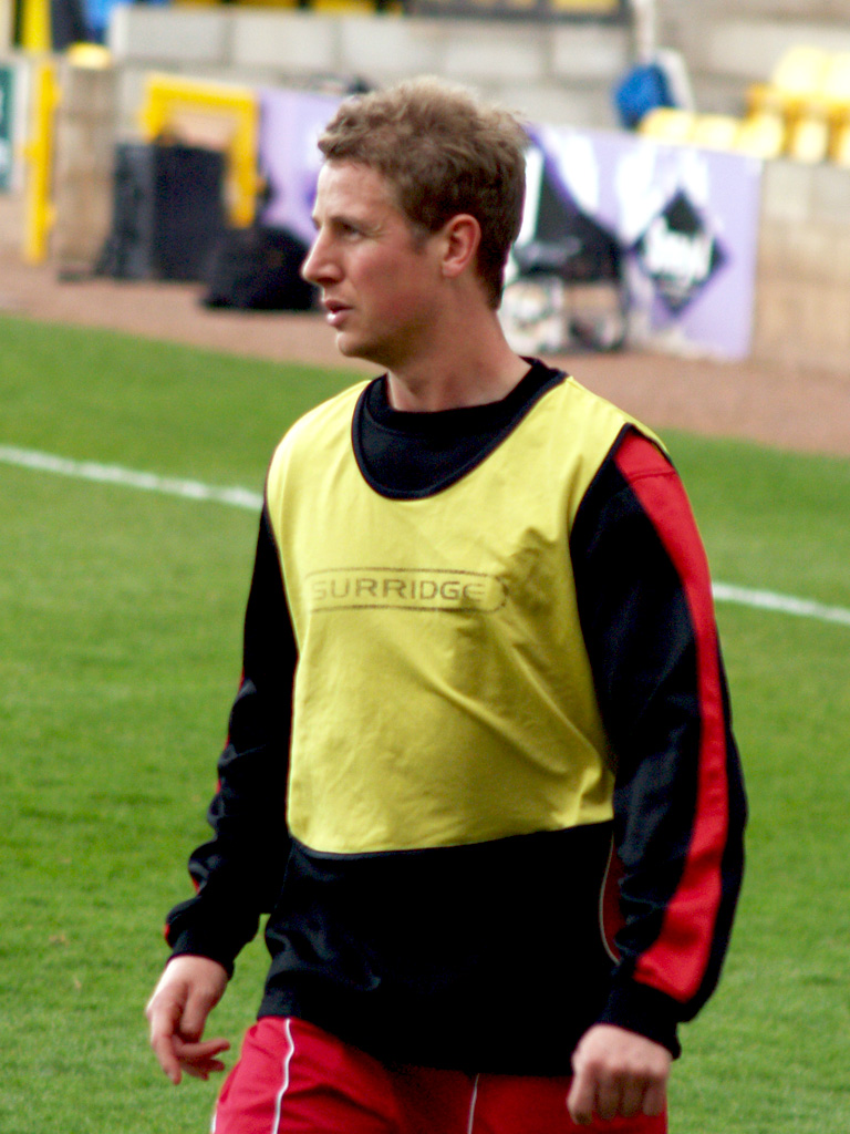 Bury FC defender Steve Haslam during the warm up at Vale Park, home of Port Vale Football Club prior to the Port Vale vs. Bury game. Saturday 4th April 2009